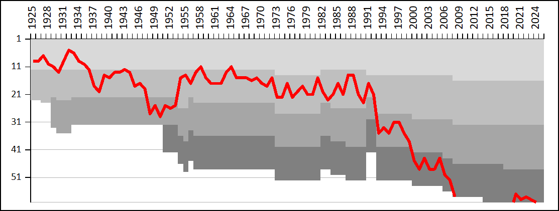 A chart showing the progress of IFK Eskilstuna through the Swedish football league system. Horizontal black lines represent league divisions.